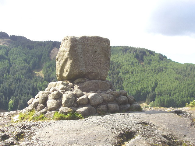 Bruce's Stone, Loch Trool. This commemorates the battle in 1307 on the opposite side of the loch, where 300 infantry of Robert the Bruce ambushed 1500 English including cavalry.